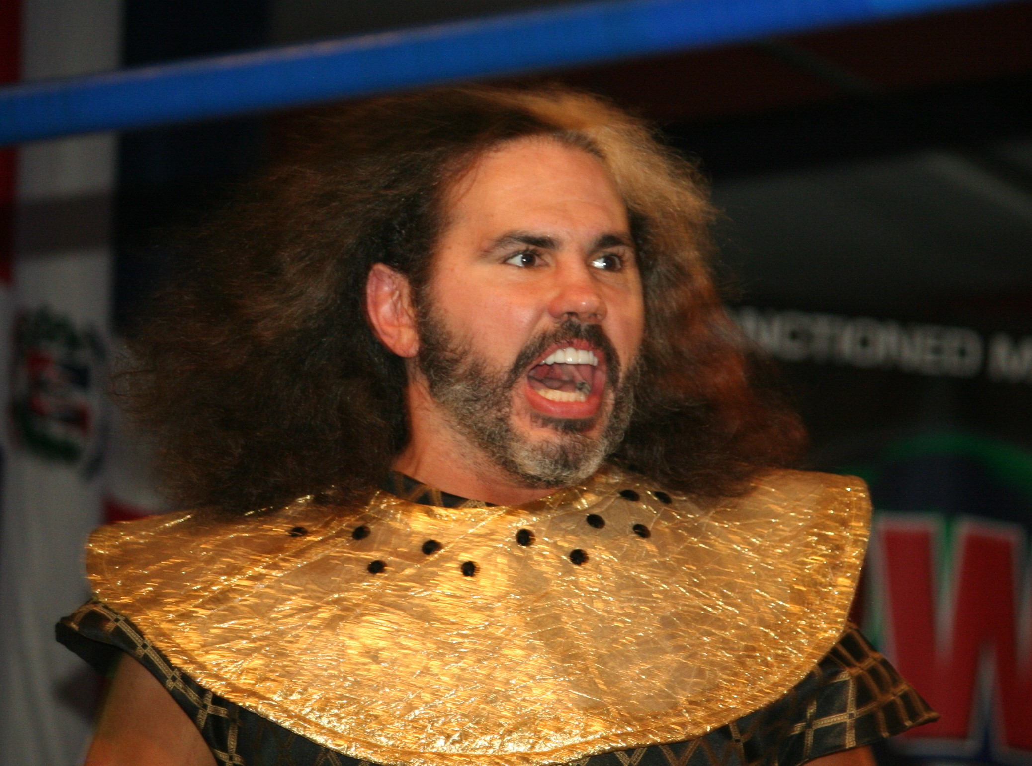 This image shows professional wrestler Matt Hardy as his 'Broken' Matt Hardy character at a Carolina Wrestling Federation (CWF) Mid-Atlantic independent show on January 29, 2017.